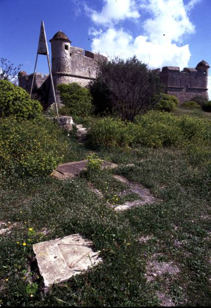 Triangulation station on Mont Alban, Nizza/Nice, France. On exposed stations like this, the ground mark is supplemented by an elevated pyramid mark, which can always be used as target from remote points.